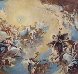 Painting by Carlo Innocenzo Carlone.